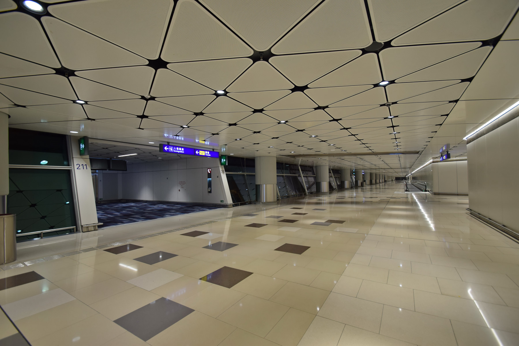 Arrival Concourse, Midfield Concourse, Hong Kong International Airport